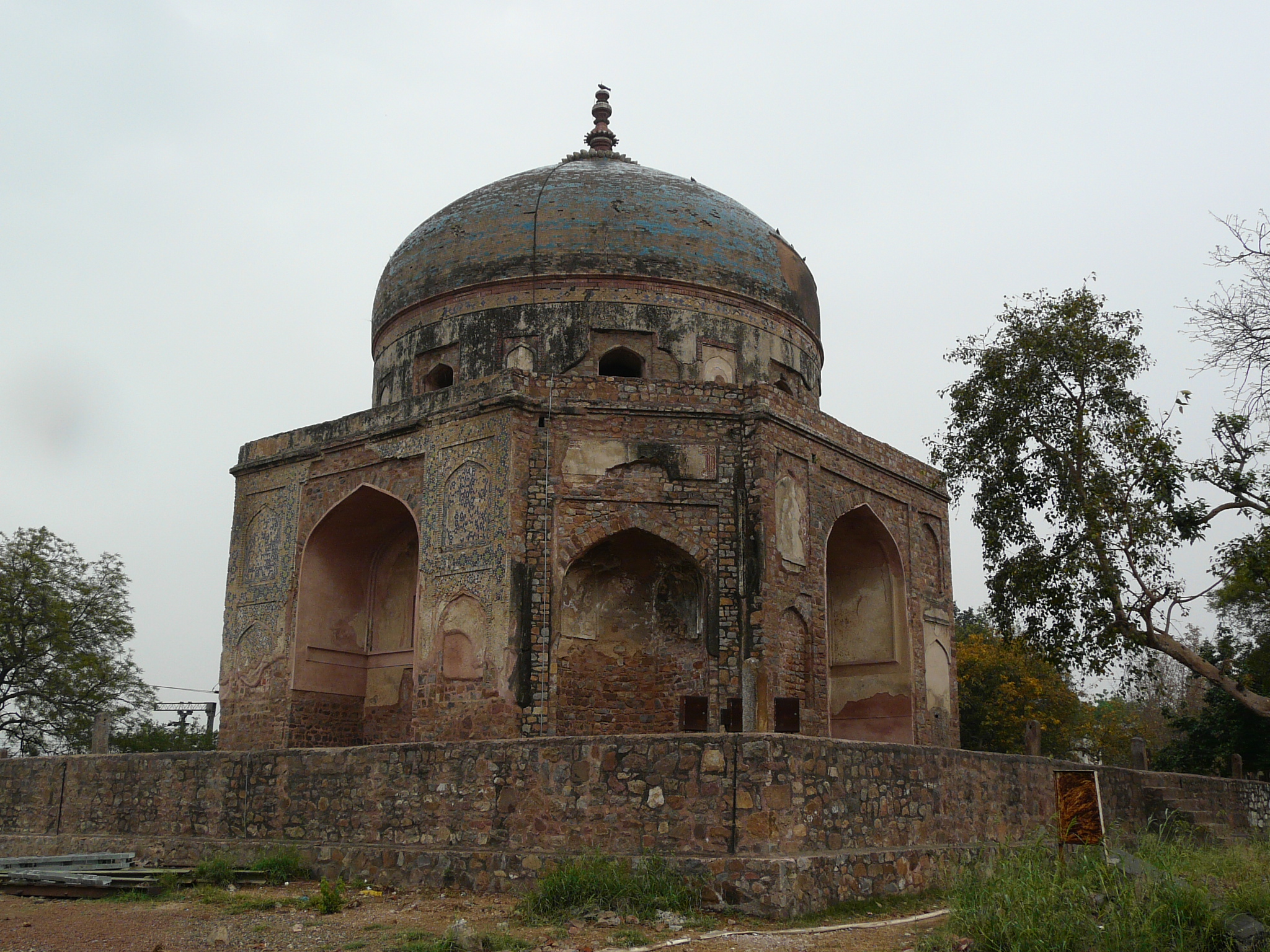 The Persian and Central Asian influence is apparent here once again.